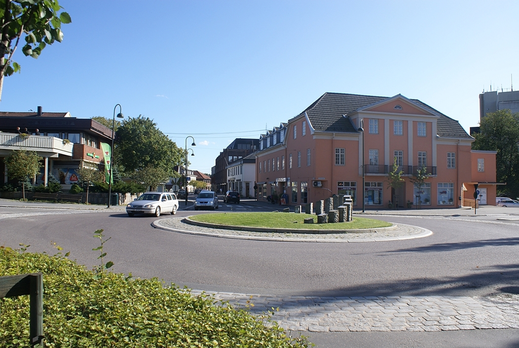 The main street "Storgaten" in Rakkestad